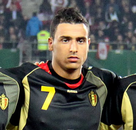 Nacer Chadli, Belgium against the Austrian national football team (0:2), 2011-03-25 in Vienna (Ernst-Happel-Stadion